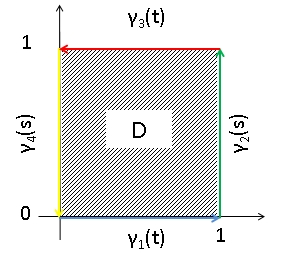 Domain of singular 2 cube.